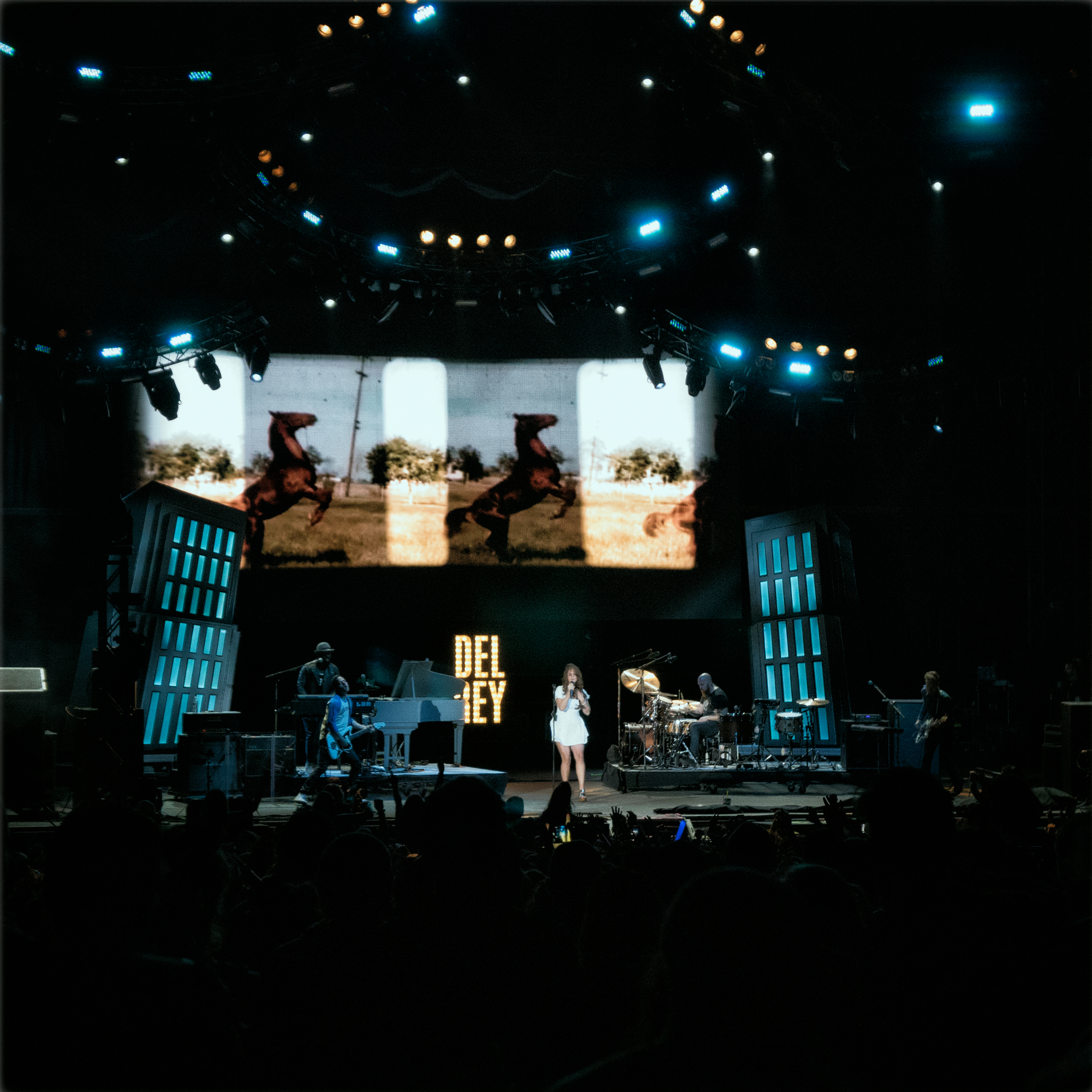 Lana Del Rey performing at the Sasquatch! Music Festival in George, Washington at The Gorge Amphitheatre